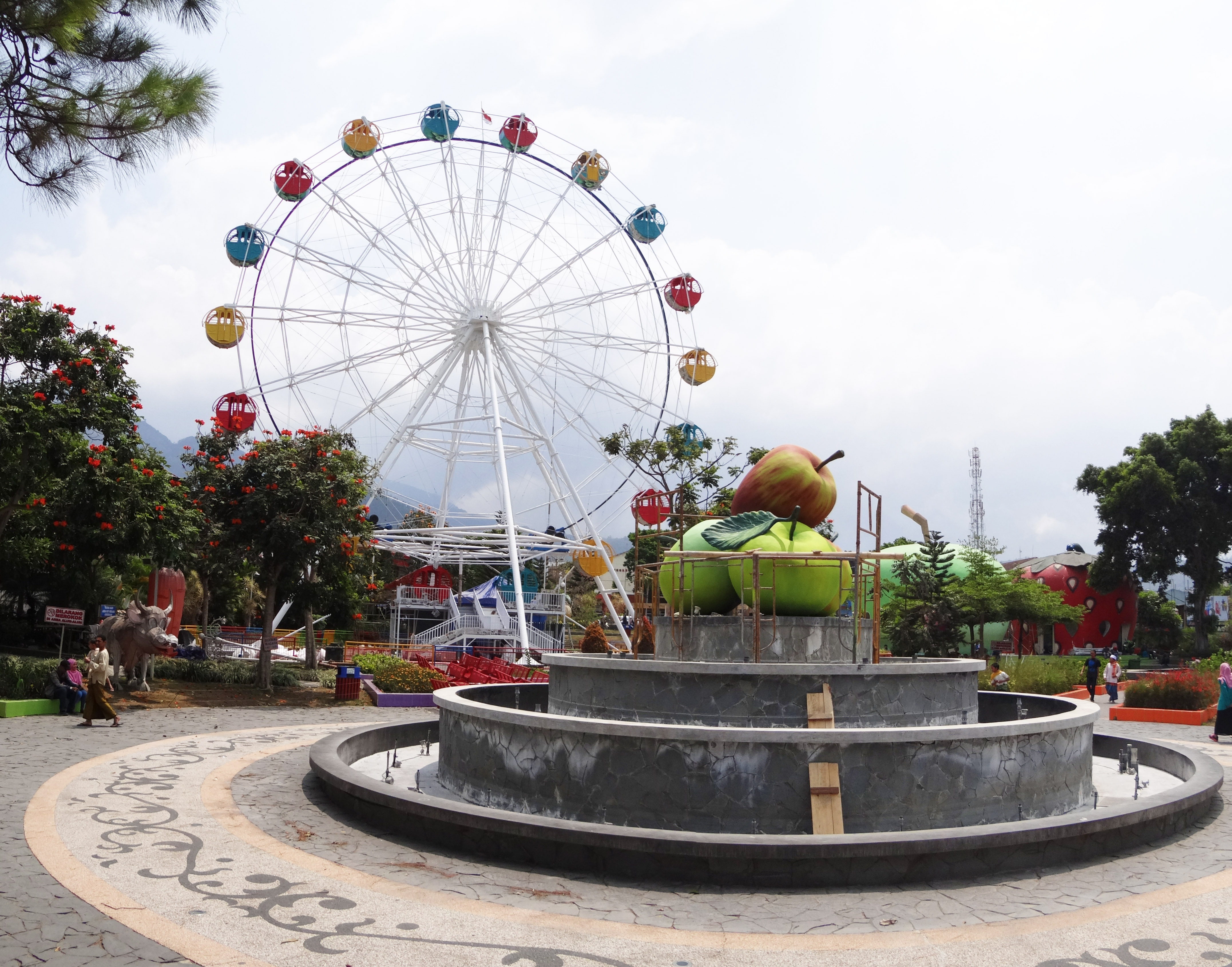 Alun-alun (city square) of Batu - under renovation.